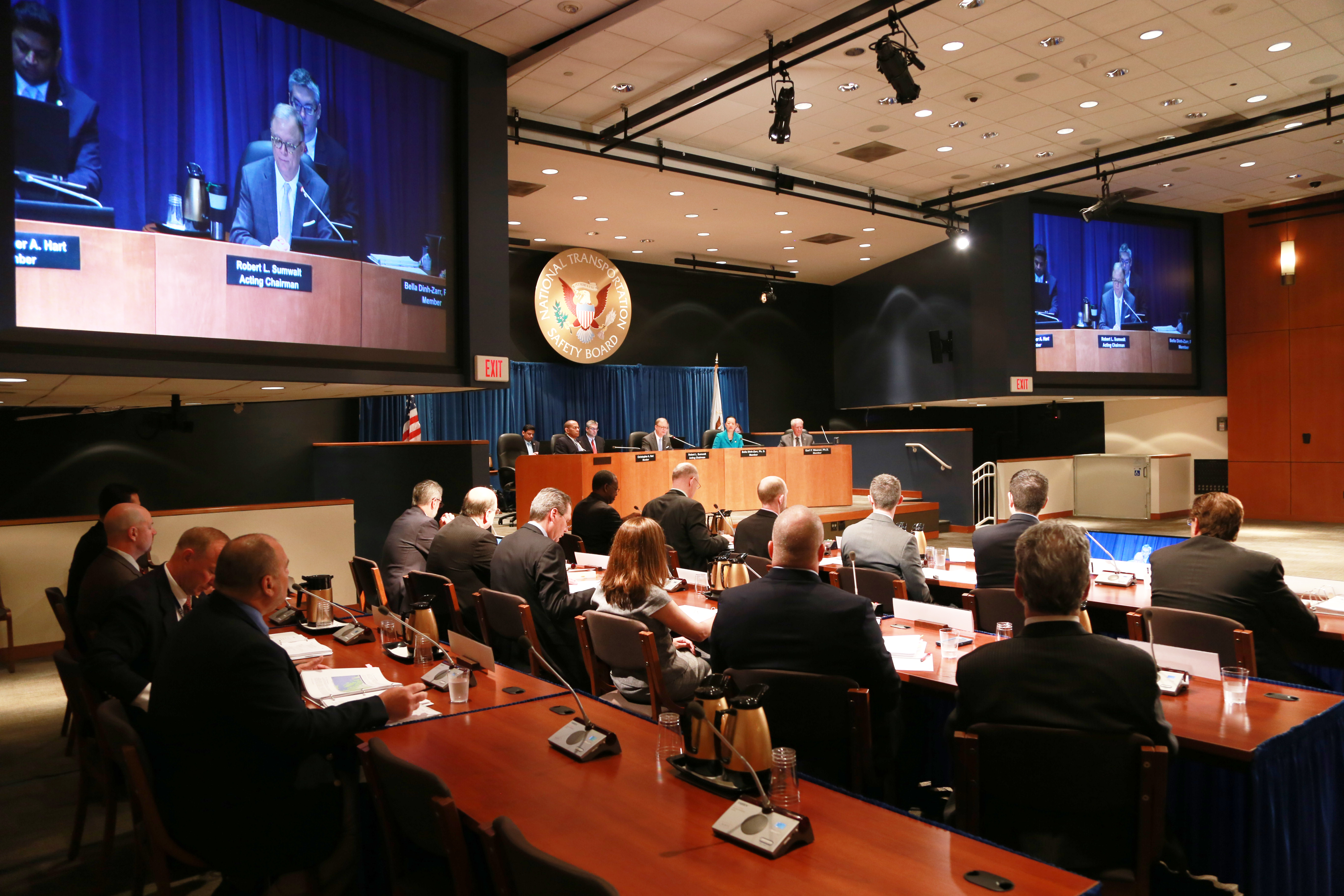 NTSB Board meet to discuss cause a de Havilland Otter float plane that crashed into a mountain in Ketchikan, Alaska on June 25, 2015.